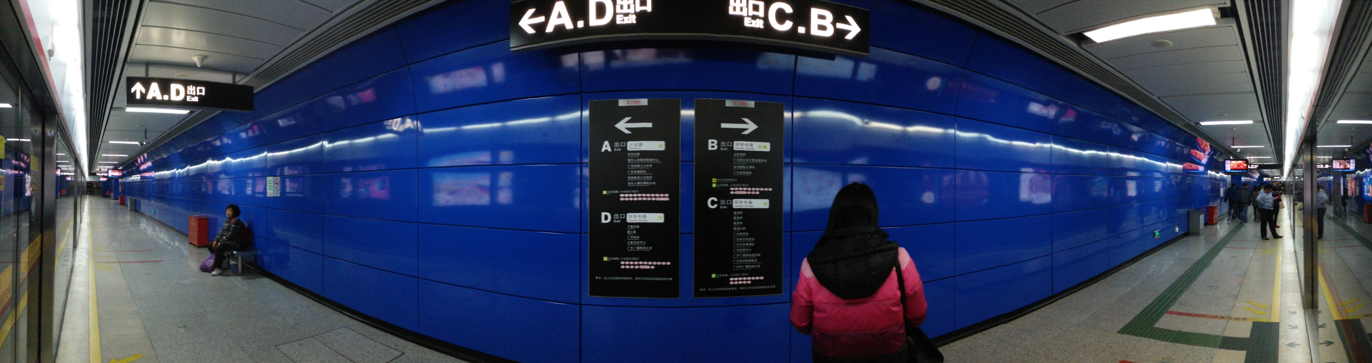 FULL SIGHT of Platform (Towards Wenchong) for Xiaobei Station in Guangzhou Metro.